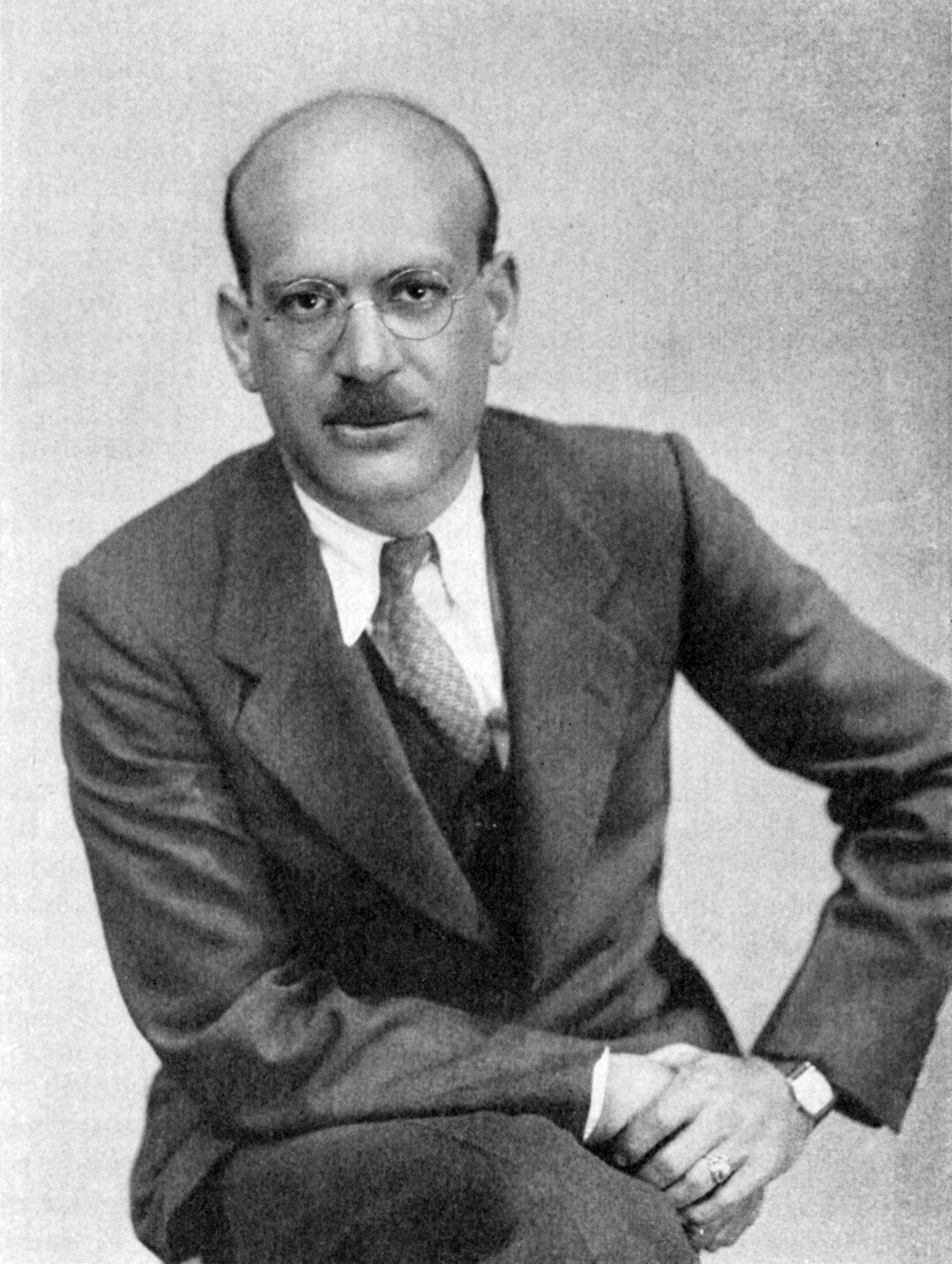 Photograph of theatrical director and producer Herman Shumlin